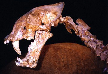 Profile of Homotherium skull, Texas Memorial Museum, University of Texas at Austin, Austin, Texas, from the contributor's personal photo collection.